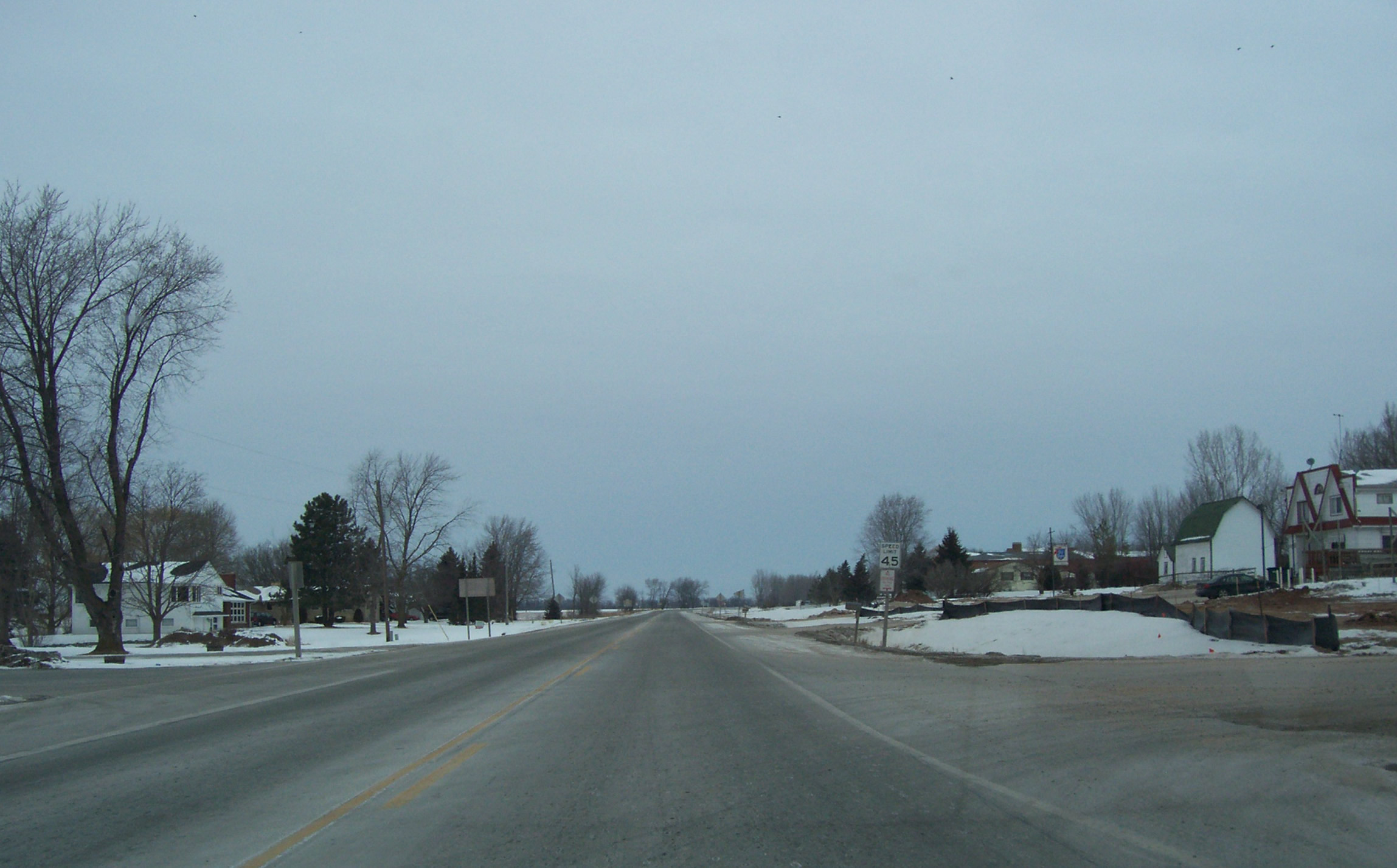 Looking north at the north side of Greenleaf, Wisconsin, USA. Travelling northbound on Wisconsin Highways 32/57. Taken February 11, 2007 by myself. Cropped from original.